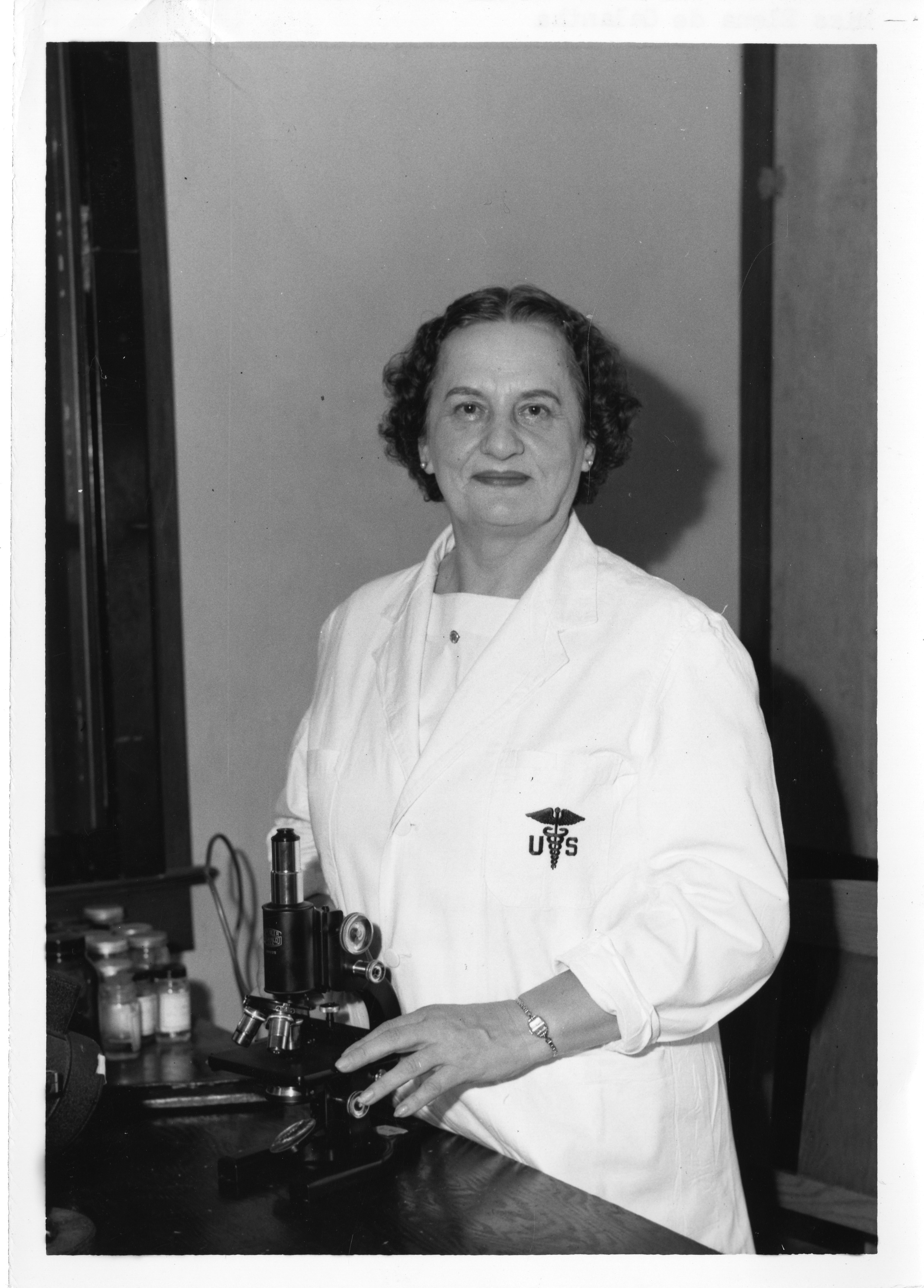 Elena de Galantha Born in Budapest, Hungary, emigrated to the United States in 1922, where she trained in medicine. This photograph was taken ca. 1952 when she was a research scientist at the Air Force School of Aviation Medicine and considered one of the world's top authorities on histology. Science Service, now the Society for Science & the Public, was a news organization founded in 1921 to promote the dissemination of scientific and technical information. Although initially intended as a news service, Science Service produced an extensive array of news features, radio programs, motion pictures, phonograph records, and demonstration kits and it also engaged in various educational, translation, and research activities.